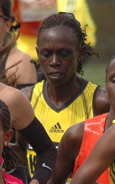 Salina Kosgei at half way point of Boston Marathon 2009